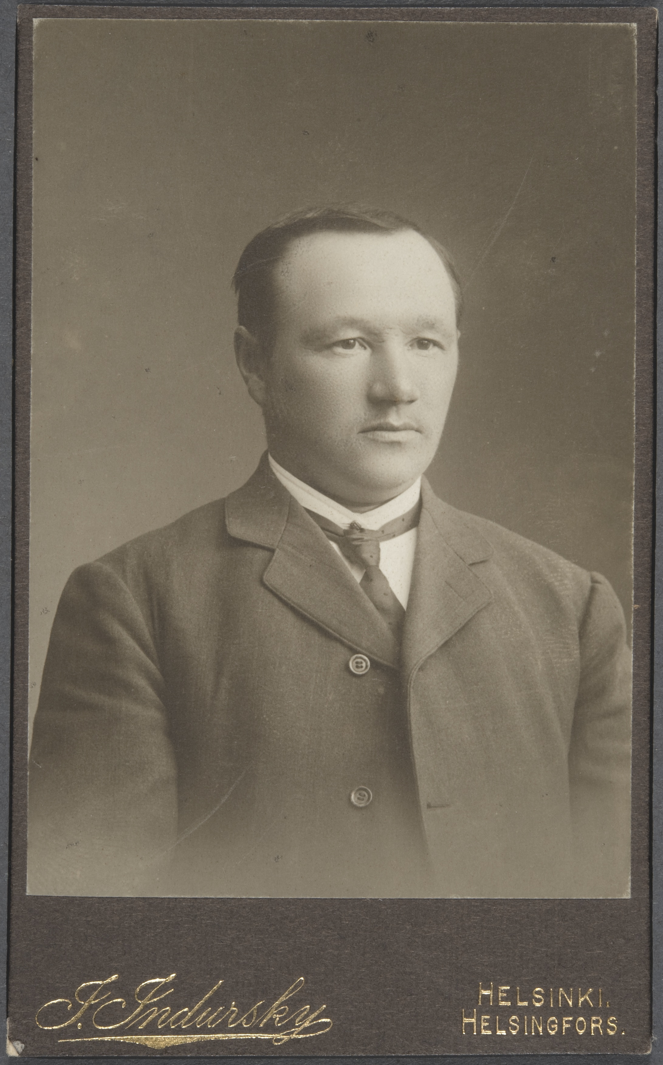 Oskari Tokoi was elected to the Finnish Senate in 1907, Speaker of the Senate in 1913 and head of the Senate (=prime minister) in march 1917.